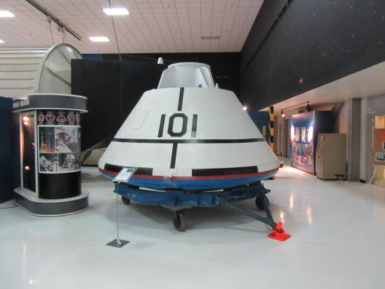 The McDonnell Apollo Capsule was used by NASA for testing touchdowns for the Apollo program.